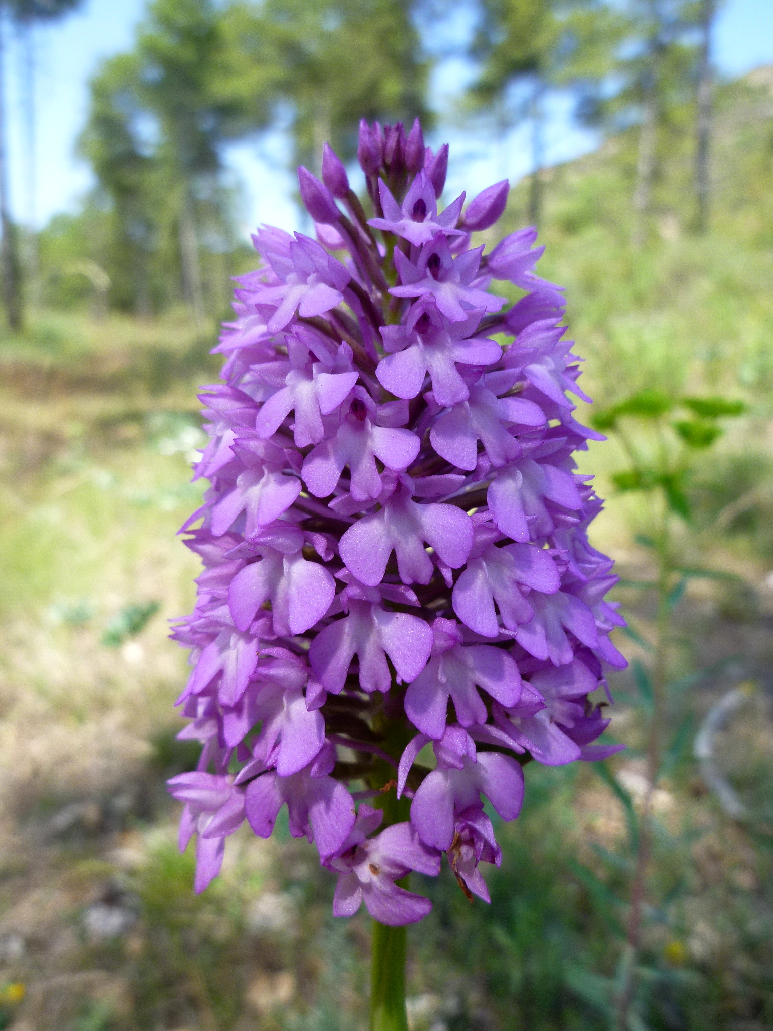 Anacamptis pyramidalis. In Torà (Segarra- Catalunya). On 560 m. altitude